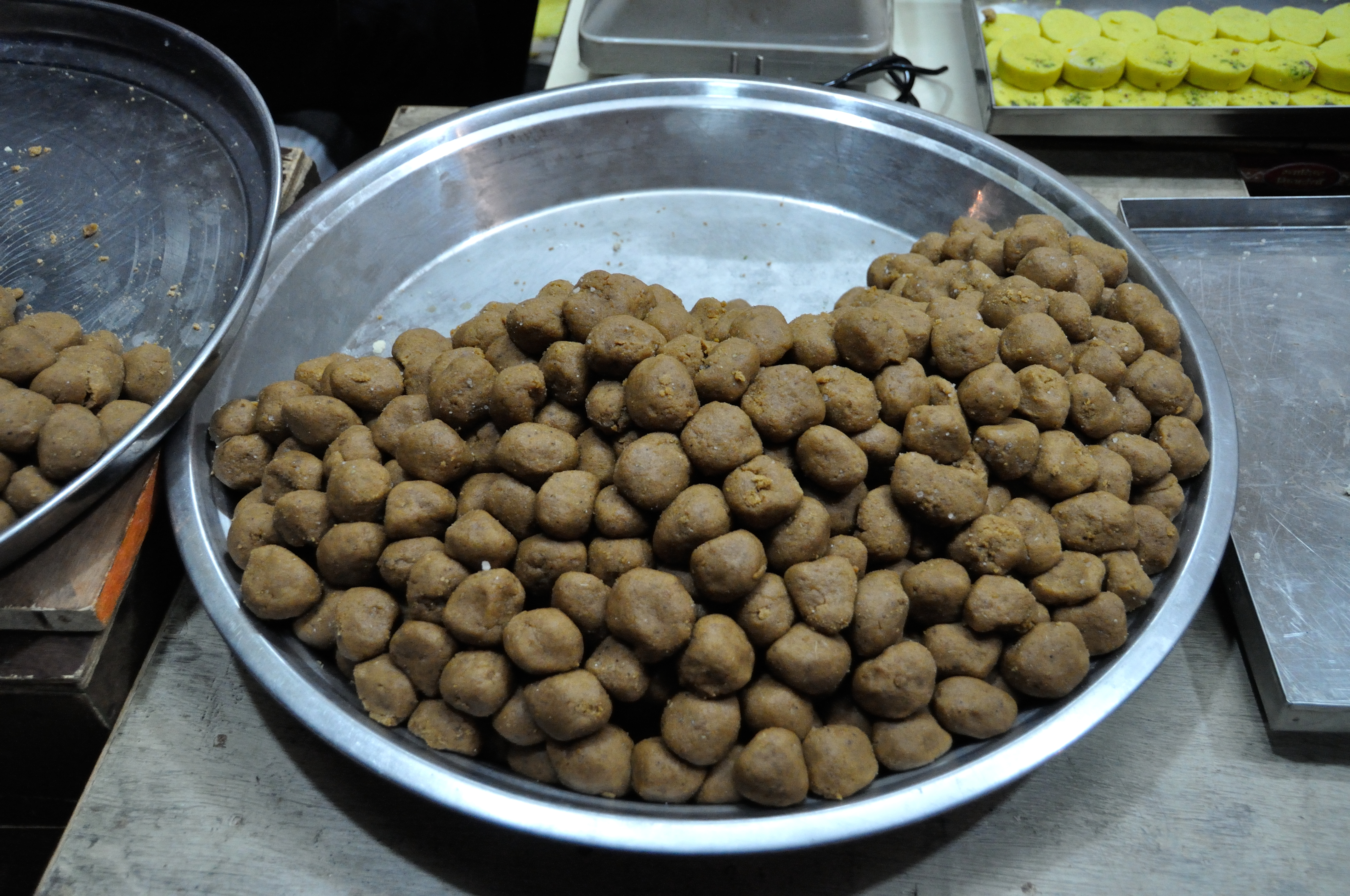 Photographed at Vrindaban, Mathura, India.